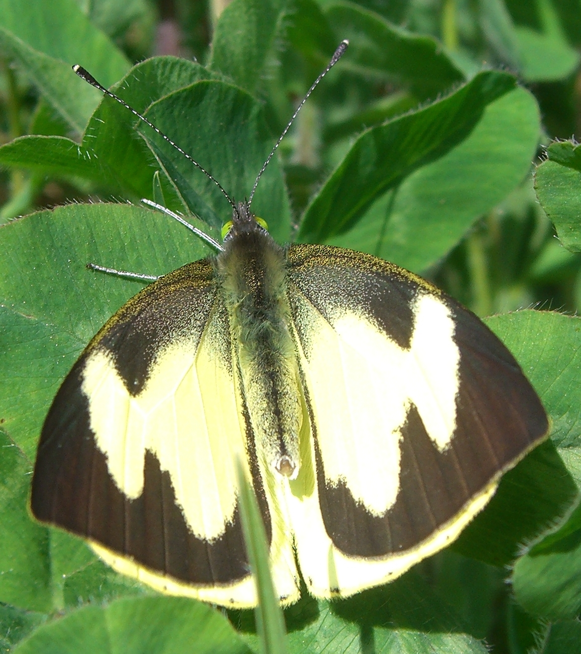 Please report references to .